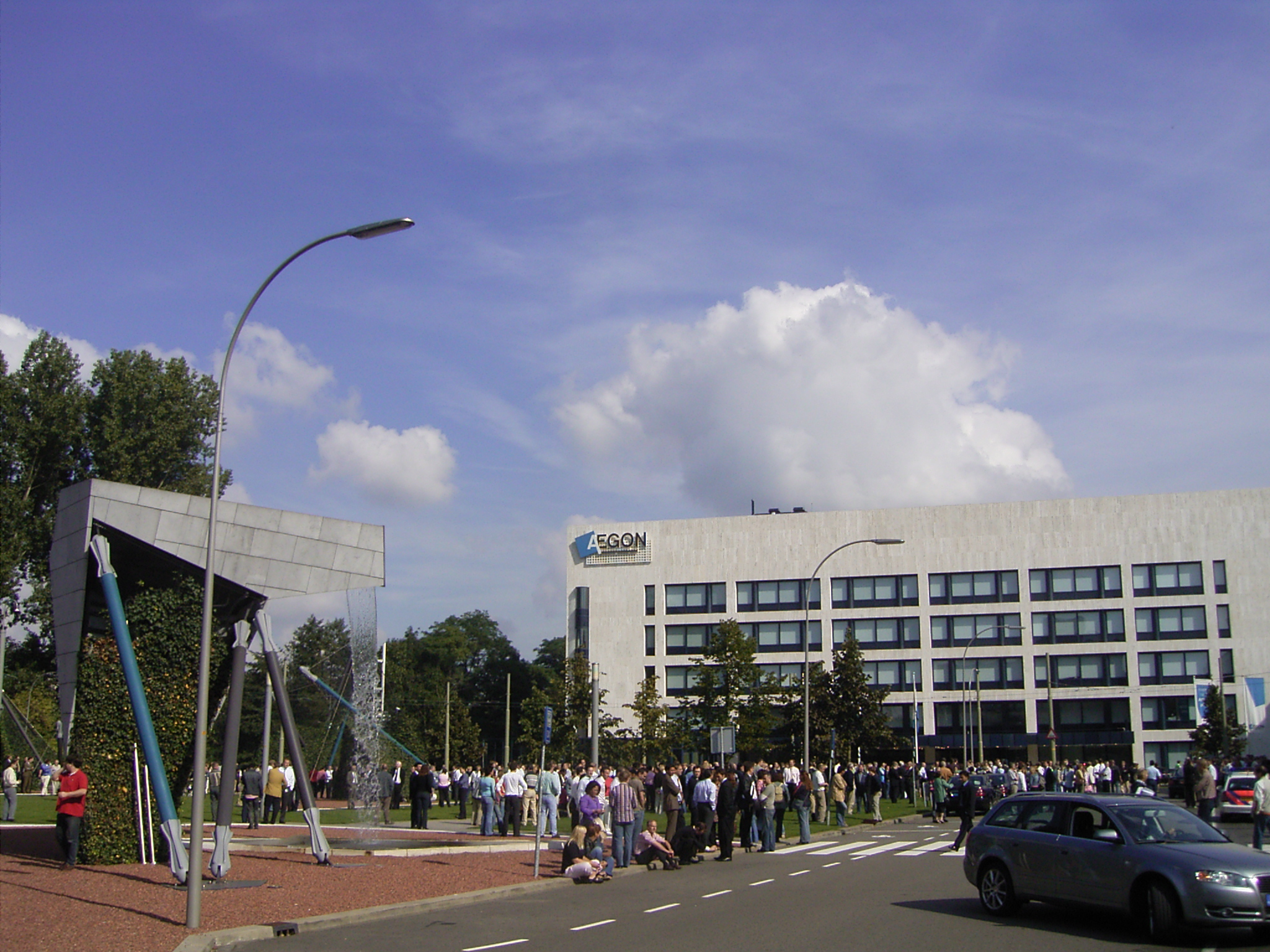 Deze foto toont het hoofdgebouw van AEGON in Den Haag. This photo shows the headquarters ofAEGON in The Hague, Netherlands